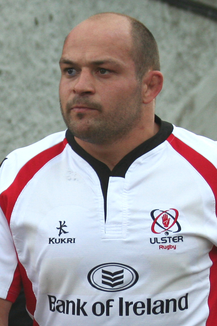 Ulster & Ireland hooker Rory Best lining out for Ulster against Ospreys in a Celtic League game at Ravenhill, Belfast